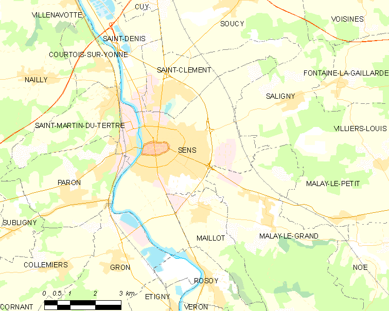 Map of French municipality Sens